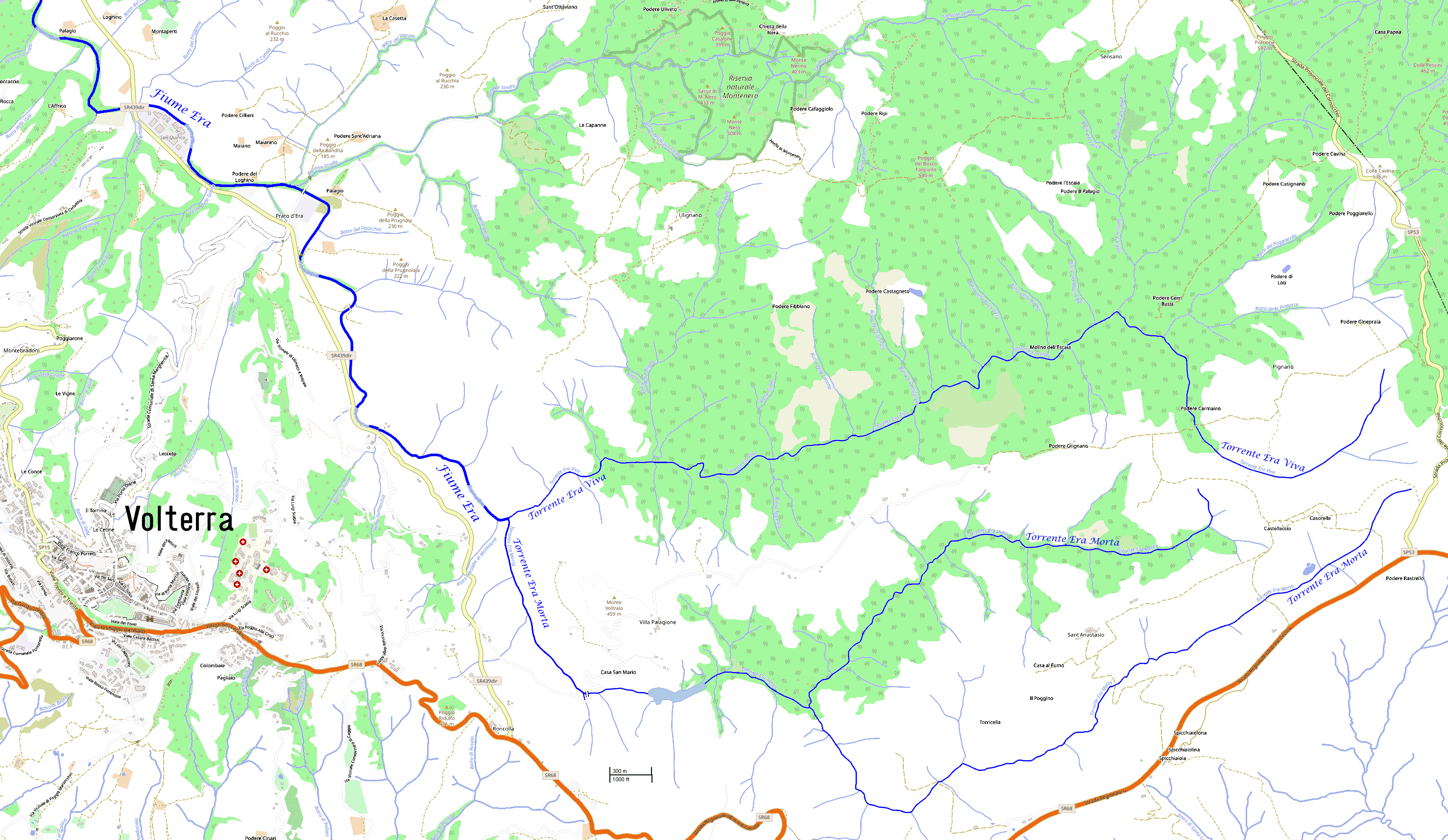 Detailed map of the headwaters of the Era river in Tuscany, drawn using the map from